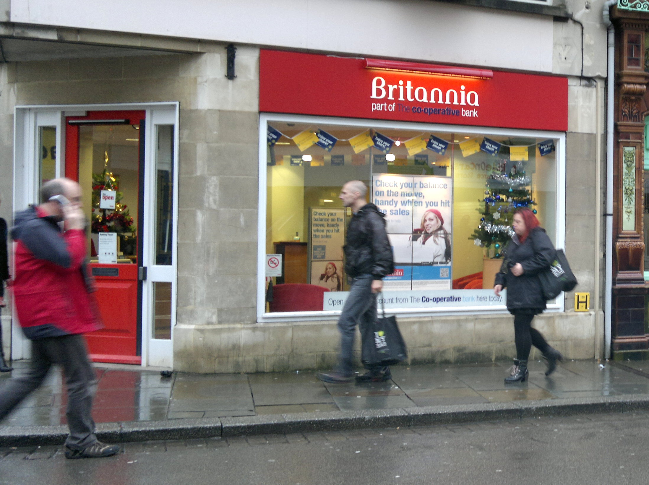 Britannia branch, Northgate Street, Gloucester.